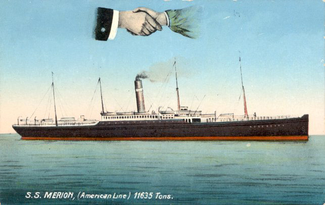 Postcard image of SS Merion of the American Line